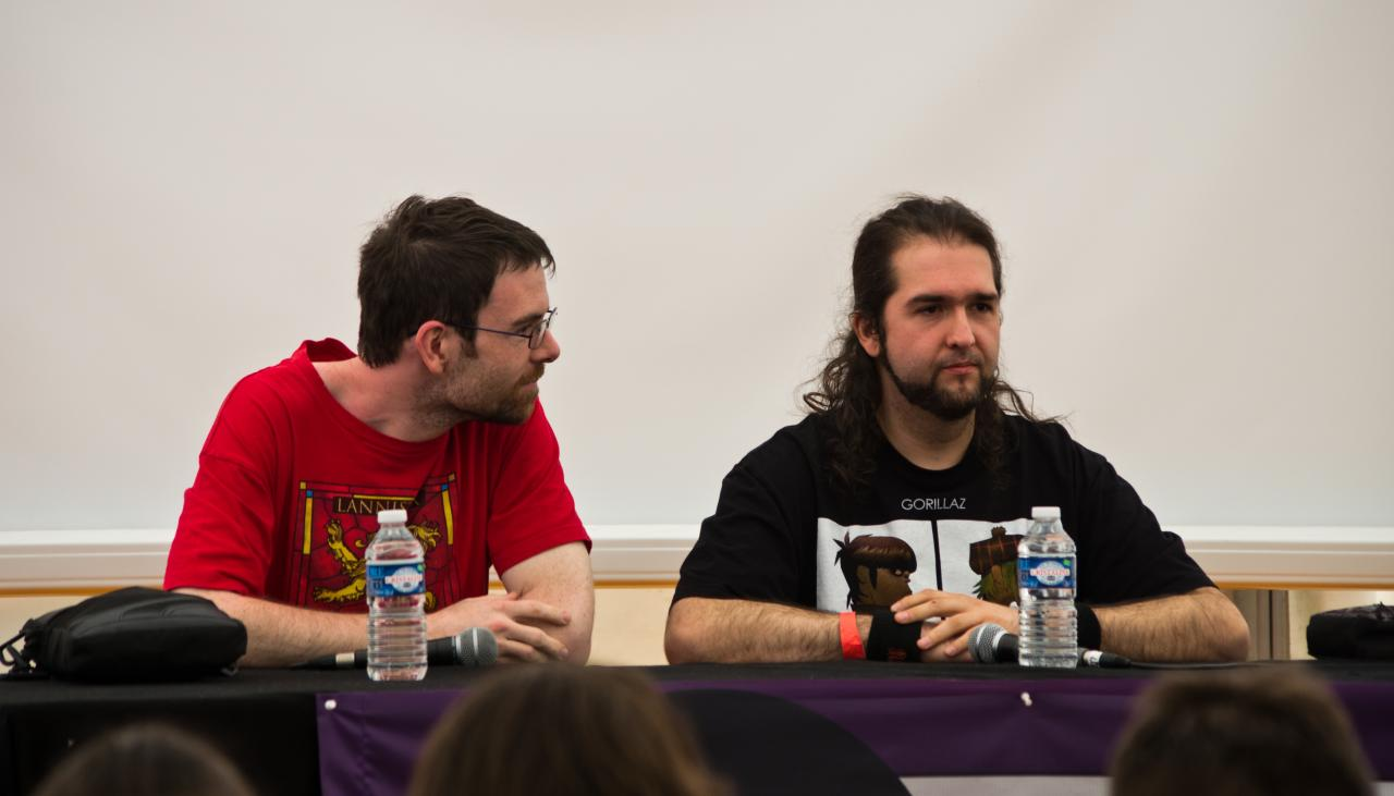 JdG Photo by JoyTek Personality rights warningAlthough this work is freely licensed or in the public domain, the person(s) shown may have rights that legally restrict certain re-uses unless those depicted consent to such uses. In these cases, a model release or other evidence of consent could protect you from infringement claims.